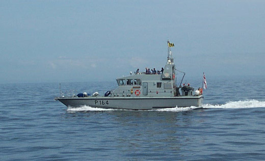 HMS Explorer in the English Channel in 2004.